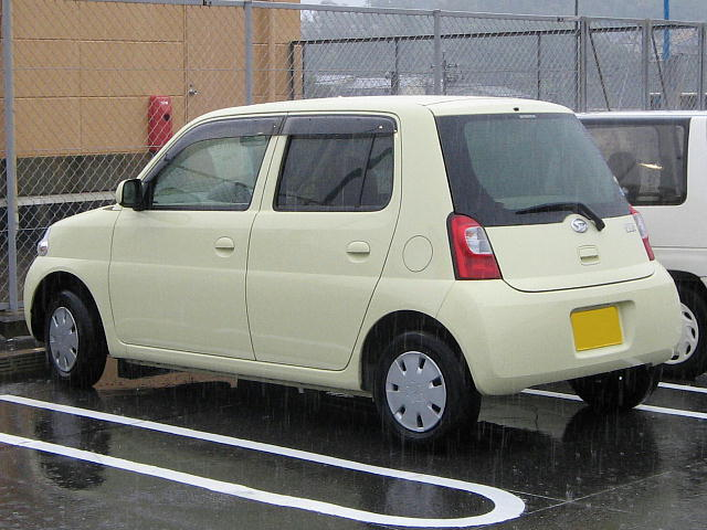 Daihatsu "Esse" (1st generation)